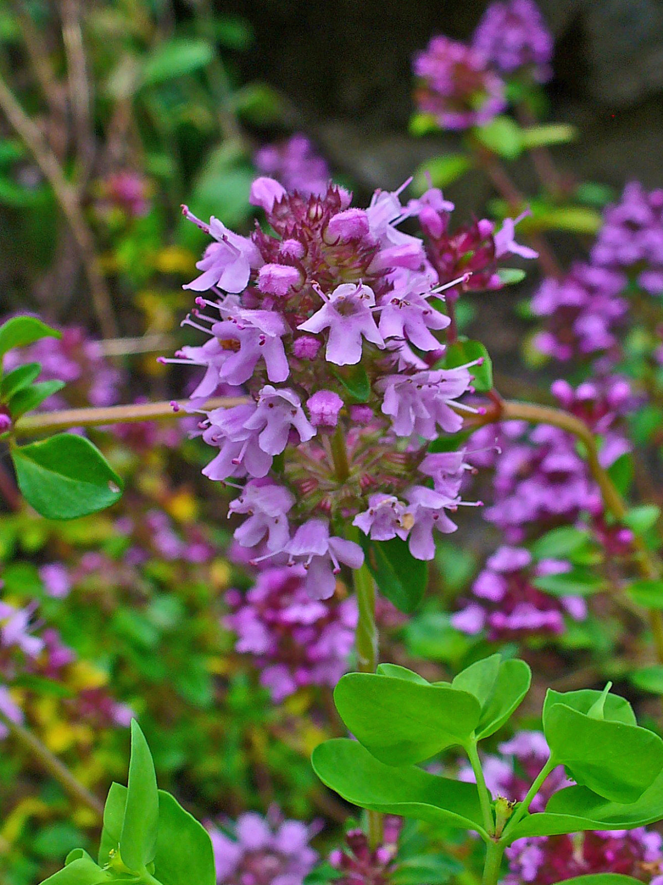 Thymus serpyllum, Lamiaceae, Wild Thyme, Creeping Thyme, inflorescence. Botanical Garden KIT, Karlsruhe, Germany.